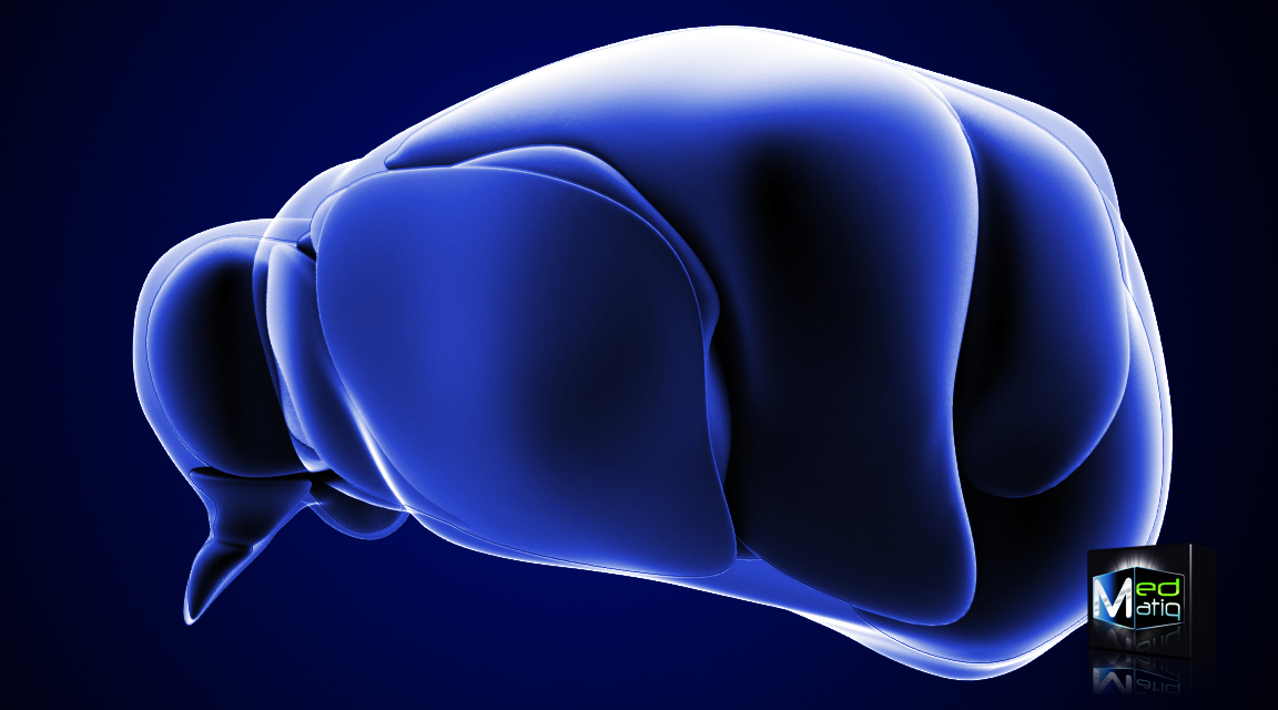 an anterolateral vue of the thalamus and its nuclei